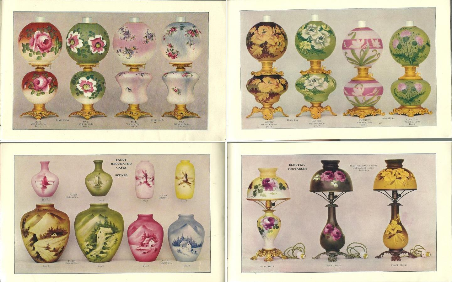 Pages from the 1904 Fostoria Glass Company Catalog File:Fostoria Glass Company 1904 Catalog.JPG showing some images of their oil and electric lamps as well as some hand-decorated vases.